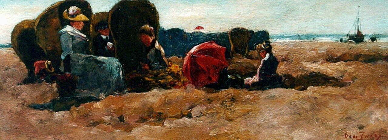 Aan het Strand (Scheveningen)